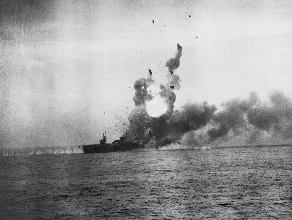 The first major explosion following the impact of the Kamikaze aircraft has created a fireball that has risen to about 300 feet above the flight deck. The largest object above that fireball is the aft aircraft elevator, which was hurled to a height of about 1,000 feet by this first explosion. In this photo it is about 800 feet high.